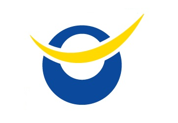 Flag of Date Fukushima